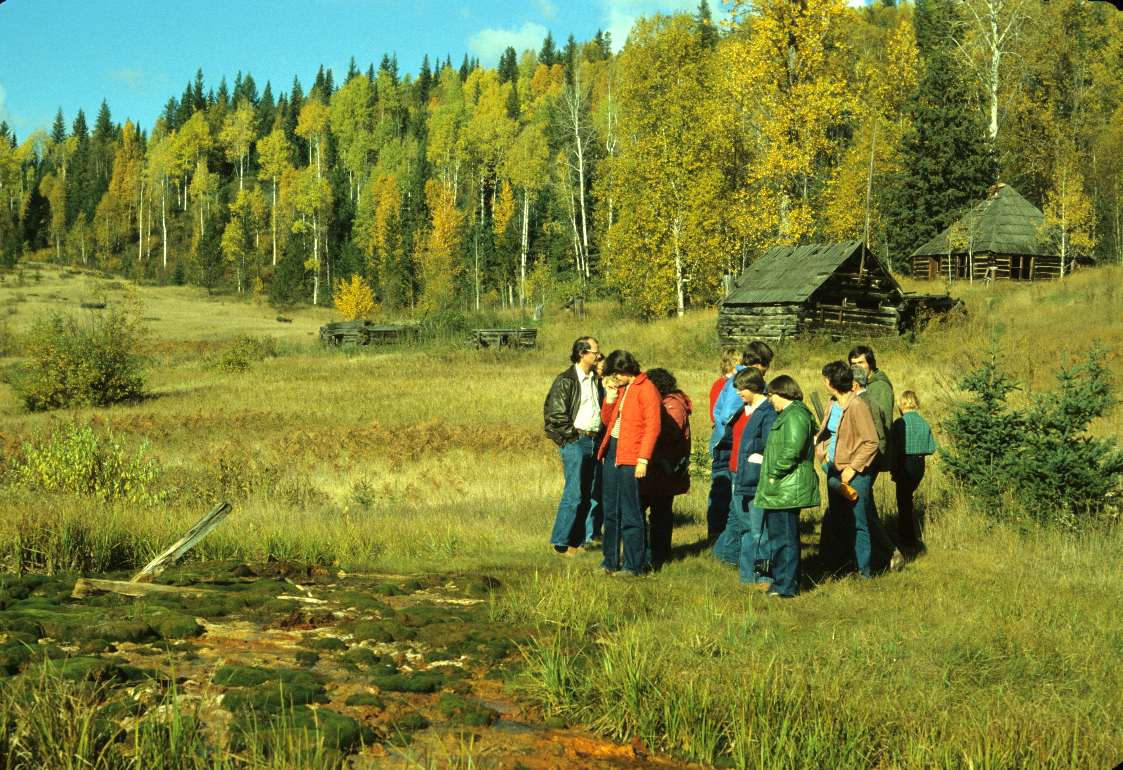 Clearwater River, British Columbia. Ray Farm in 1971. Mineral Springs in front.